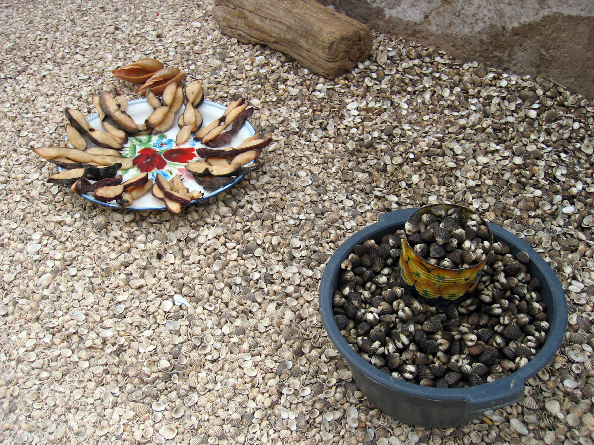 'Two types of 'fruit de mer' typically salt-cured and sun-dried and used as flavorings for popular Senegalese dishes. On the wide platter, shown dry-curing pieces of 'yet' (a salt-water mollusk, Cymbium marmoratum); foreground, in the bucket, 'pañ' – a small clam (of the type senilia senilis) can be cooked fresh, but typically cut open and sold dried, and the shells discarded (the reason there are so many shells on the ground) to be used as flavorings in the Senegalese rice pilafs and paella-type seafood dishes most notably, but not limited to 'gnankatang' or 'mbakhalou saloum and in 'ceebu jen/thiéboudiène'. Food for sale in Senegal